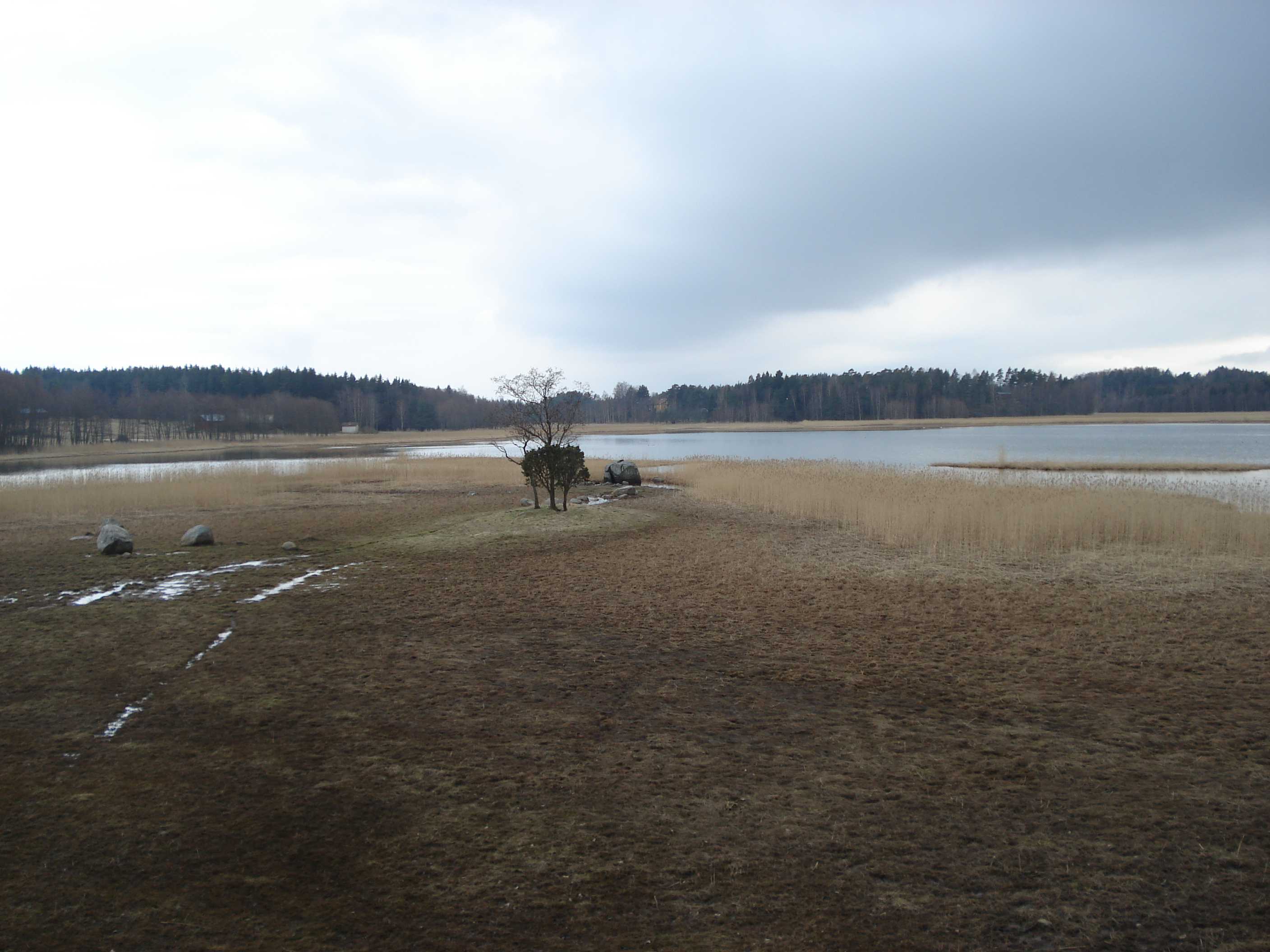 Mattholmsfladan Parainen, Finland.